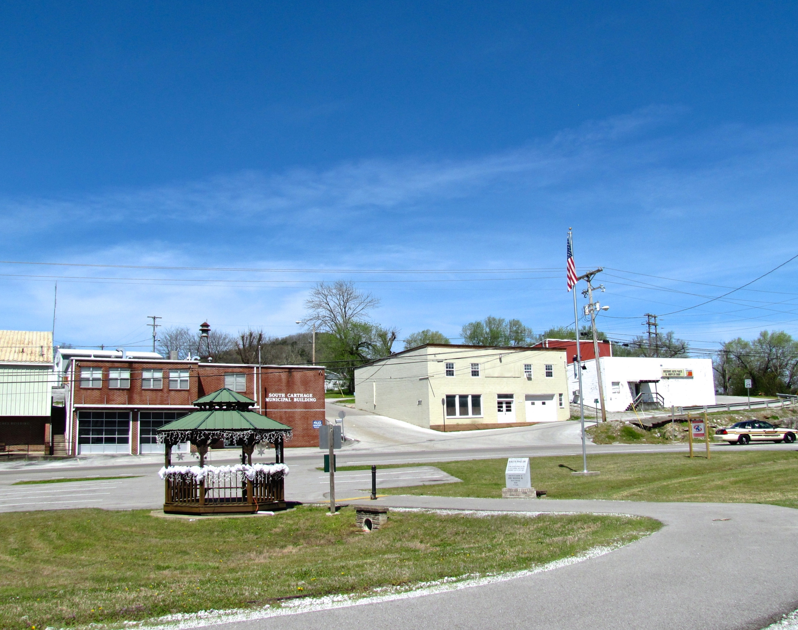 Buildings in South Carthage, Tennessee, United States, looking toward the intersection of US-70N and Old Highway 53.